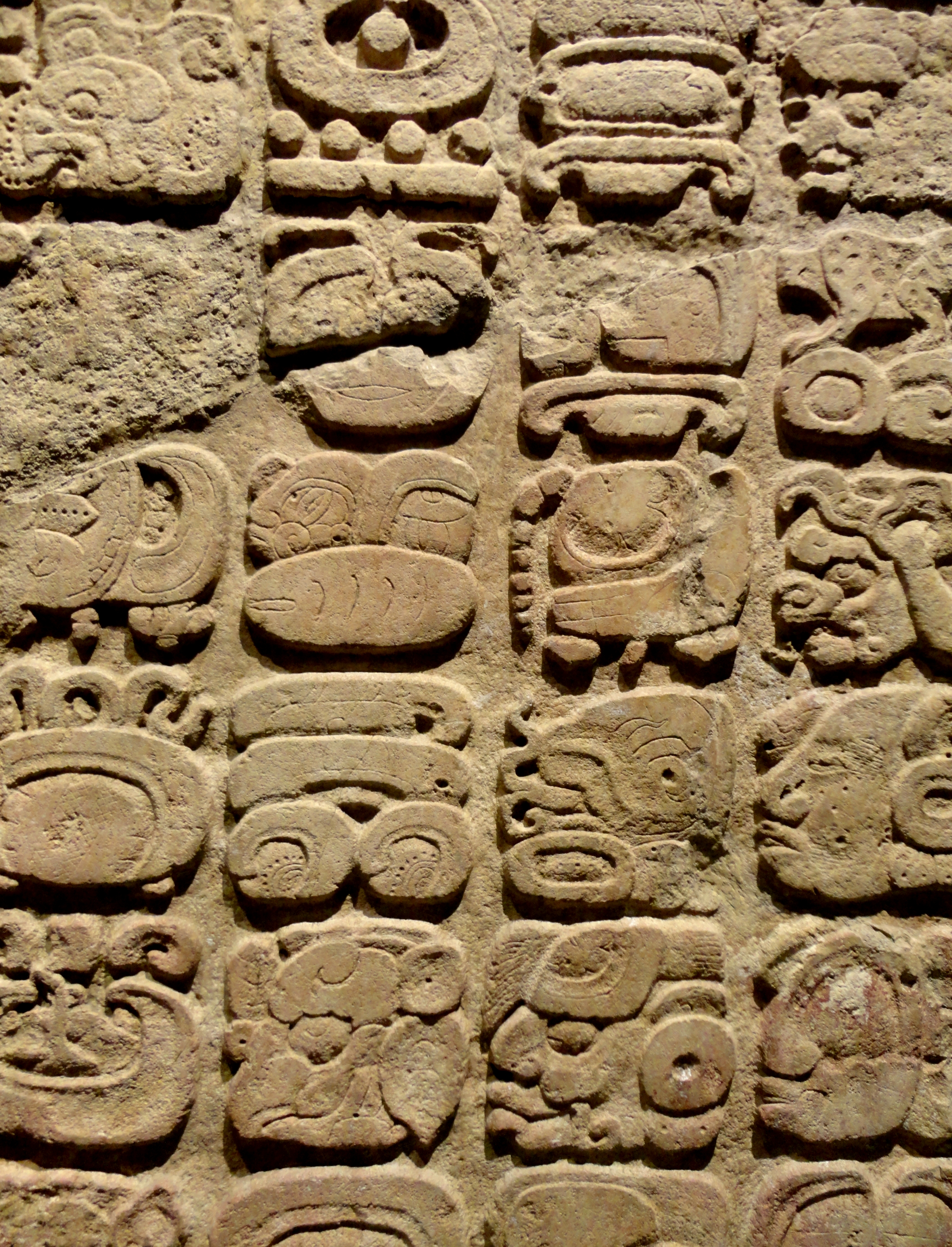 Glifos mayas